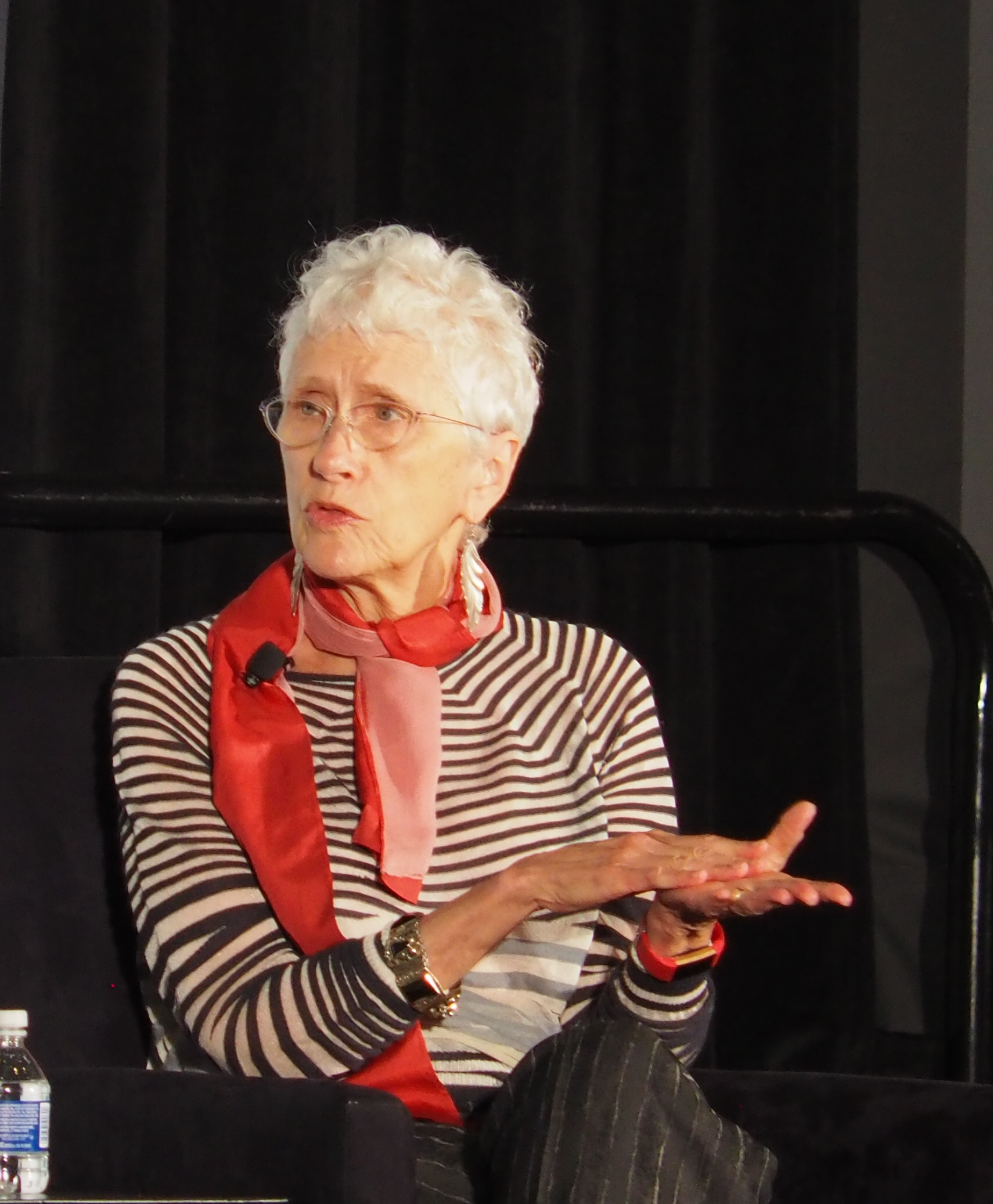 Sara paretsky